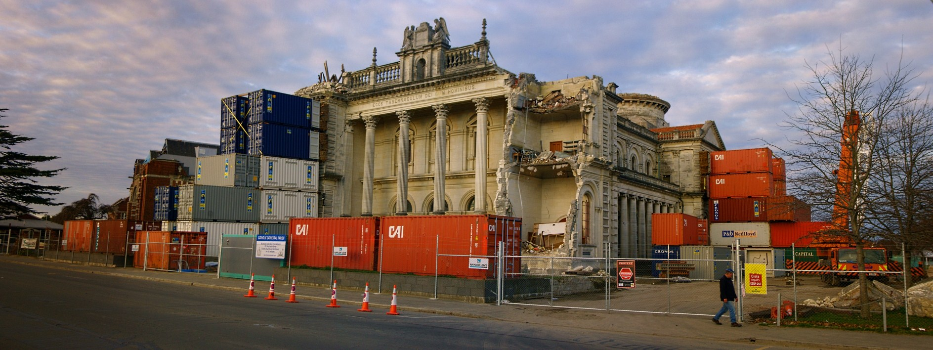 The cathedral's fragile facade (damaged by earthquakes) is temporarily held in place by shipping containers and haybales.